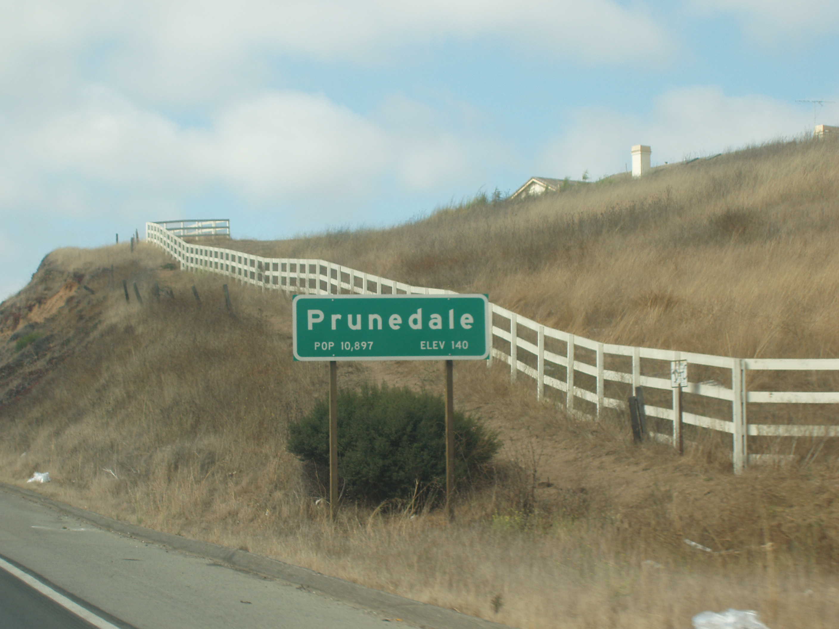 Population sign for Prunedale, California heading North on highway 101.